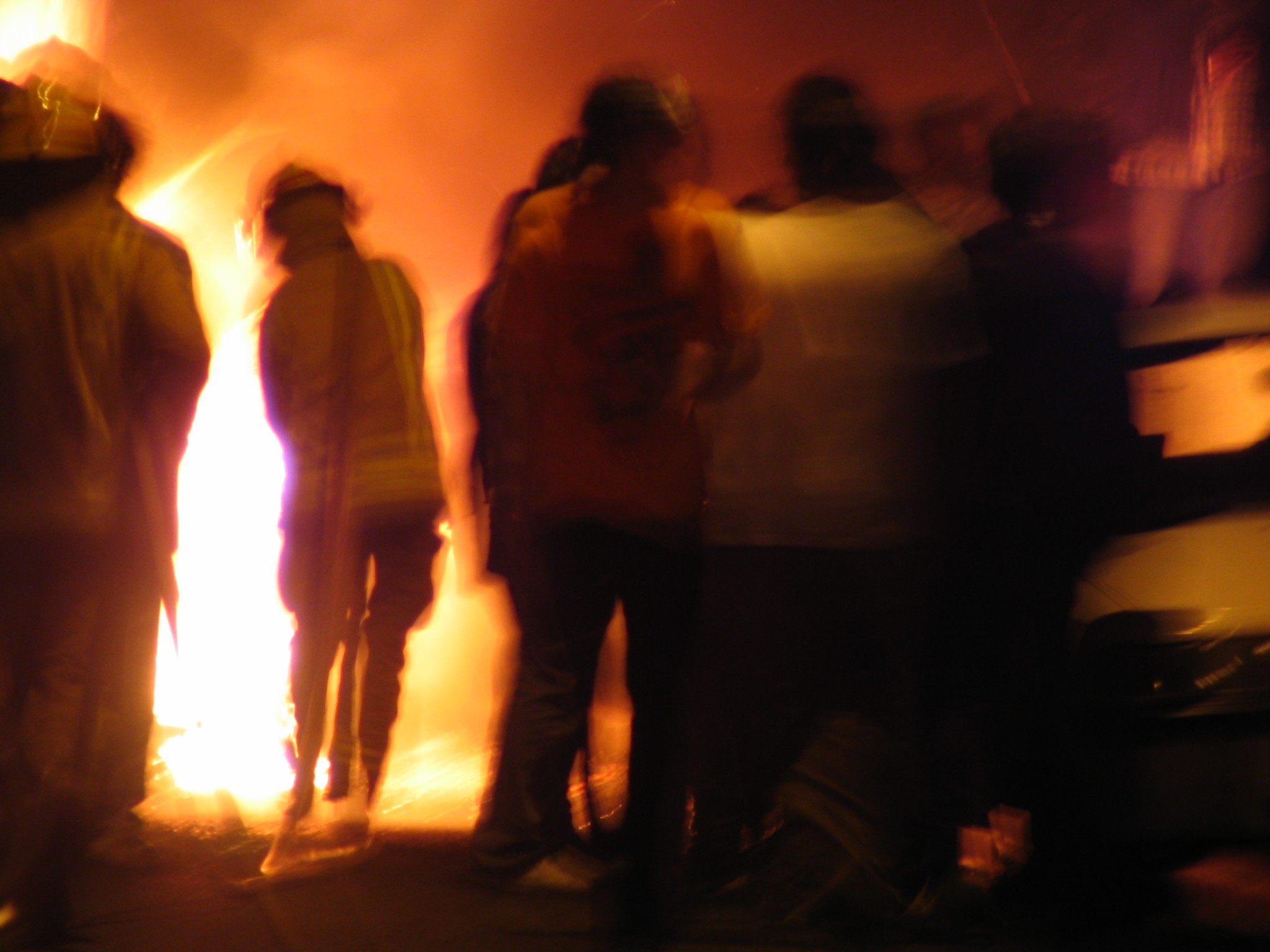 Two members of the New Zealand Fire Service (on left) moving in to douse an Undie 500 fire on Grange Street, Dunedin, New Zealand.